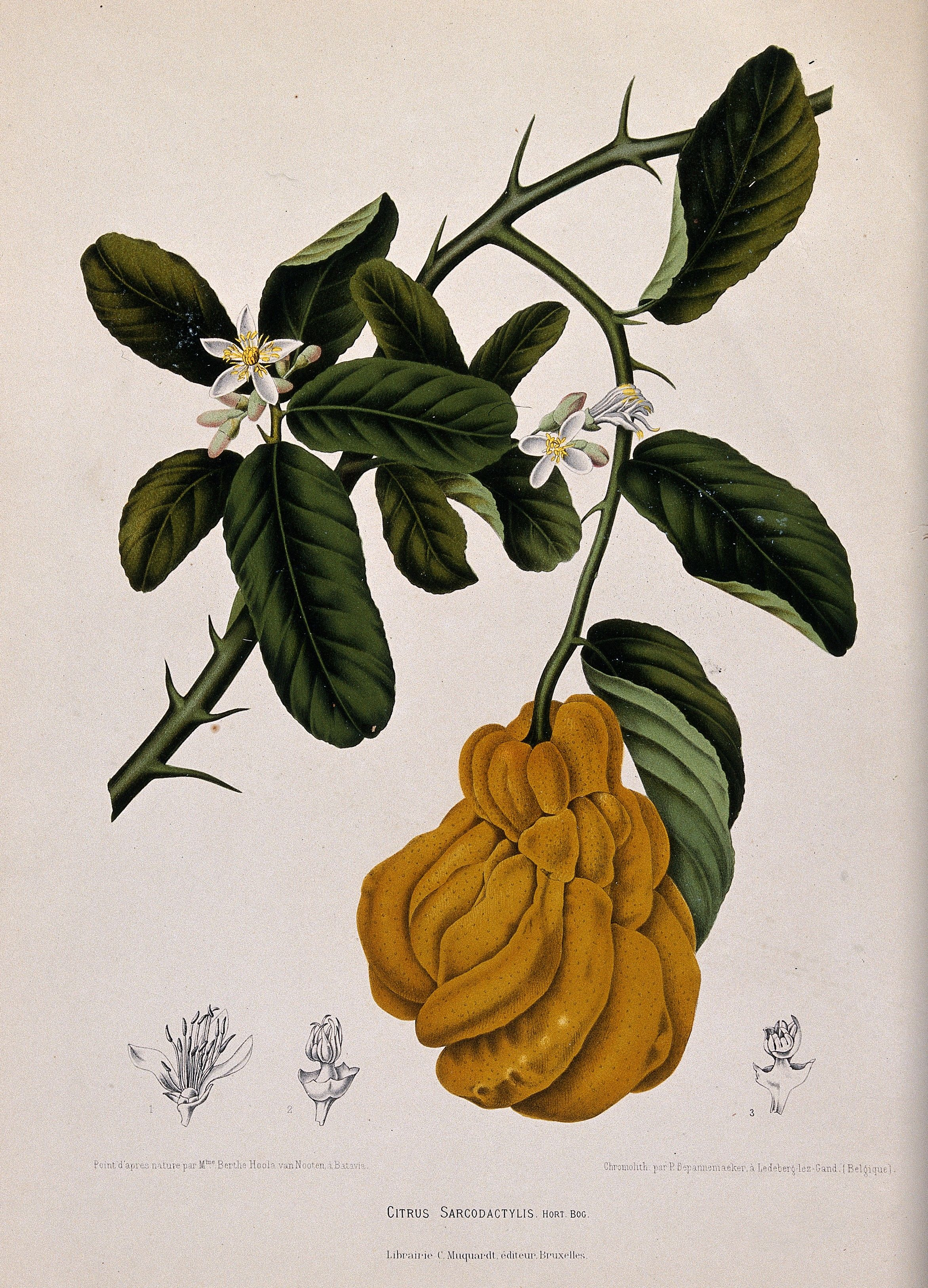 A species of citrus fruit (Citrus sarcodactylis Hort. Bog.): flowering and fruiting branch with separate numbered flower sections. Chromolithograph by P. Depannemaeker, c. 1885, after B. Hoola van Nooten. Iconographic Collections Keywords: Berthe van Nooten Hoola; Pierre Joseph Depannemaeker; botany - java (indonesia); chromolithographs; citrus fruits; tropical fruit; island flora; Rutaceae; plants, edible - java (indones; scientific illustrations